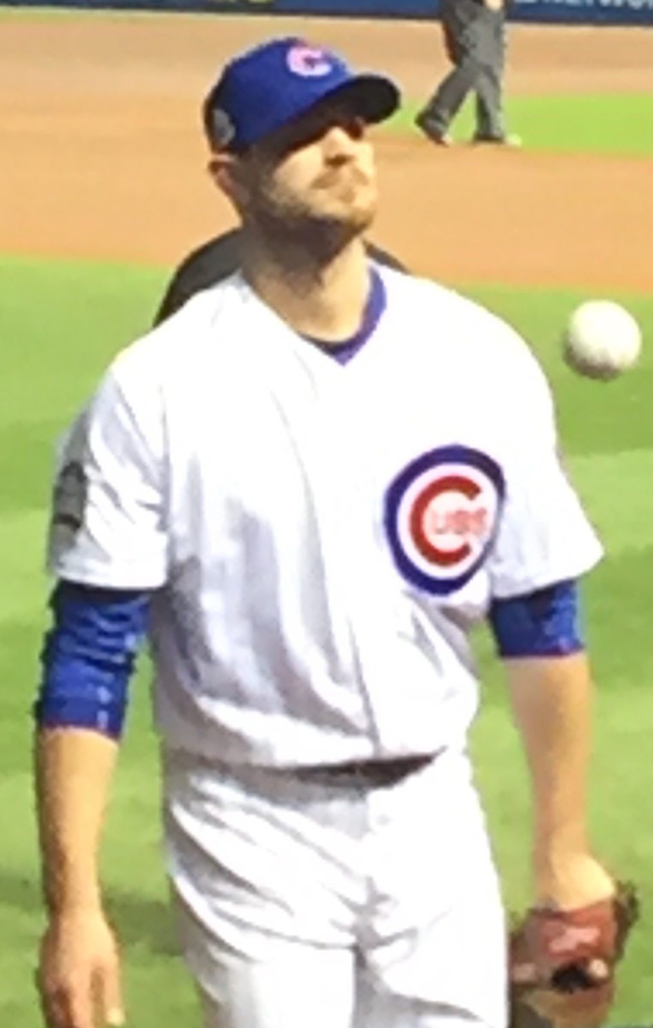 Justin Grimm warming up in the Chicago Cubs bullpen at Wrigley Field during Game 6